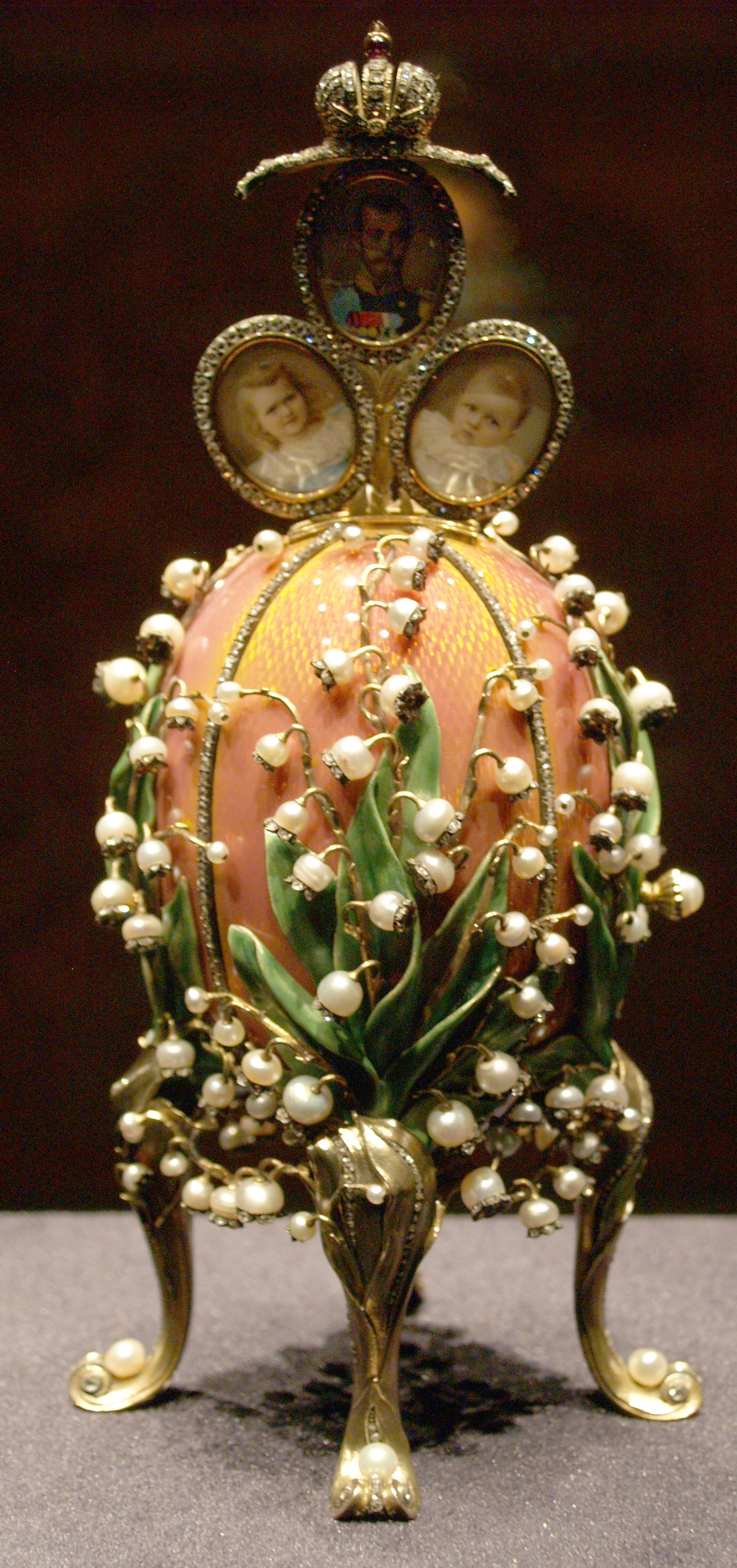 Lilies of the Valley Fabergé egg photographed at an exhibition in Rome.